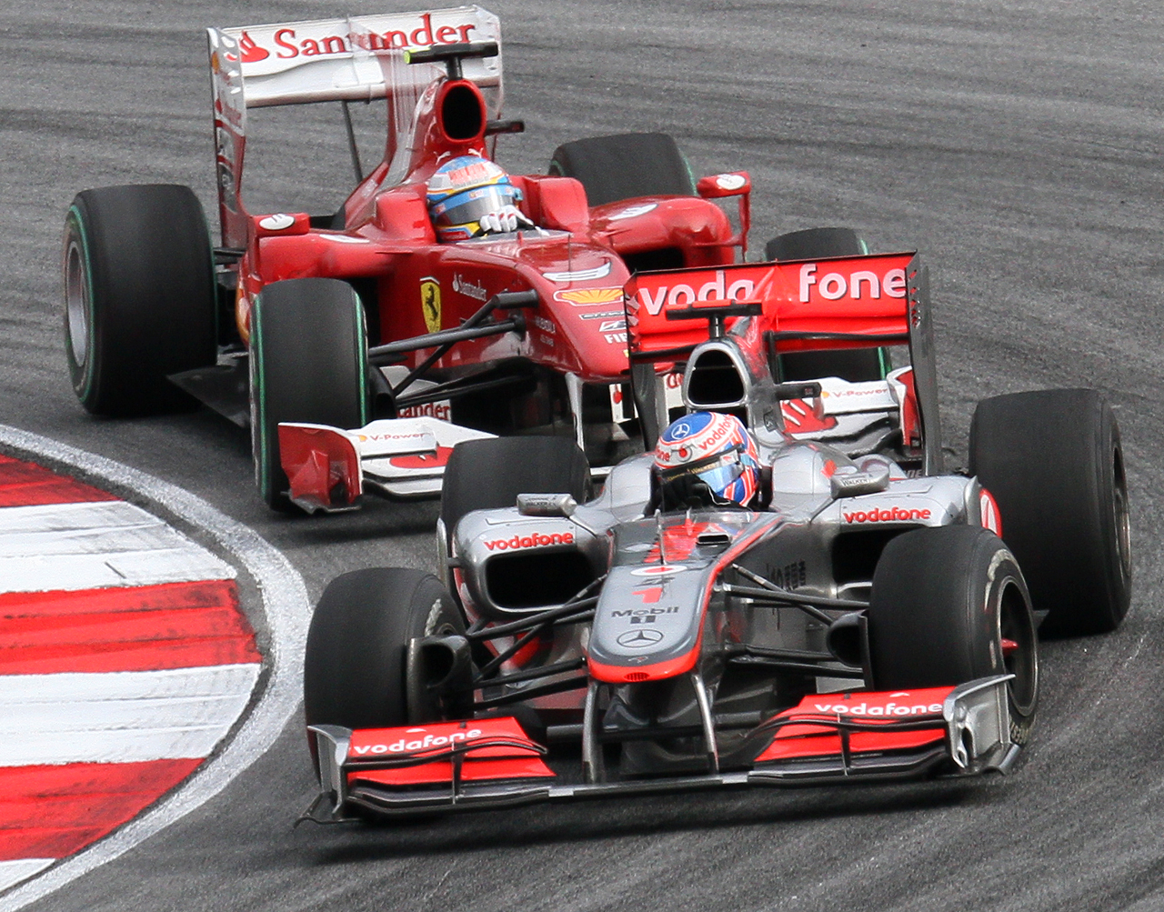 Formula One 2010 Rd.3 Malaysian GP: Jenson Button (McLaren) leads Fernando Alonso (Ferrari)